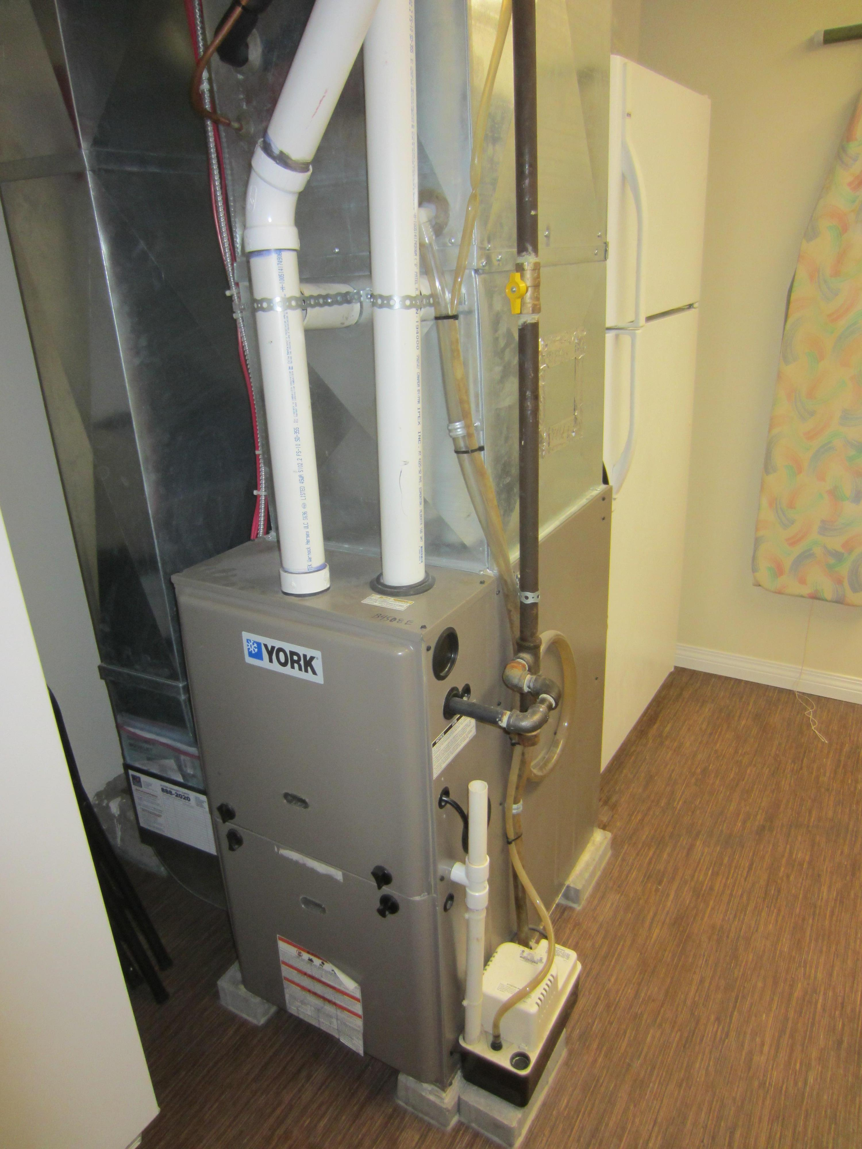 Condensing type forced air natural gas furnace. Metal ducts are for return air (left) and heated air (right). Combustion air is brought in through the white PVC pipe, and the cooled waste gases are forced out through another PVC pipe. At the right bottom is the condensate pump that pumps the condensed water out of the combustion product gases through clear plastic tubing; this pump also handles condensate from the air conditioning coil. This unit is rated at 80,000 BTU/hr (23.4kW) input, and has a 1200 CFM (34 cubic metres/minute) blower, and claims 96% heating efficiency.